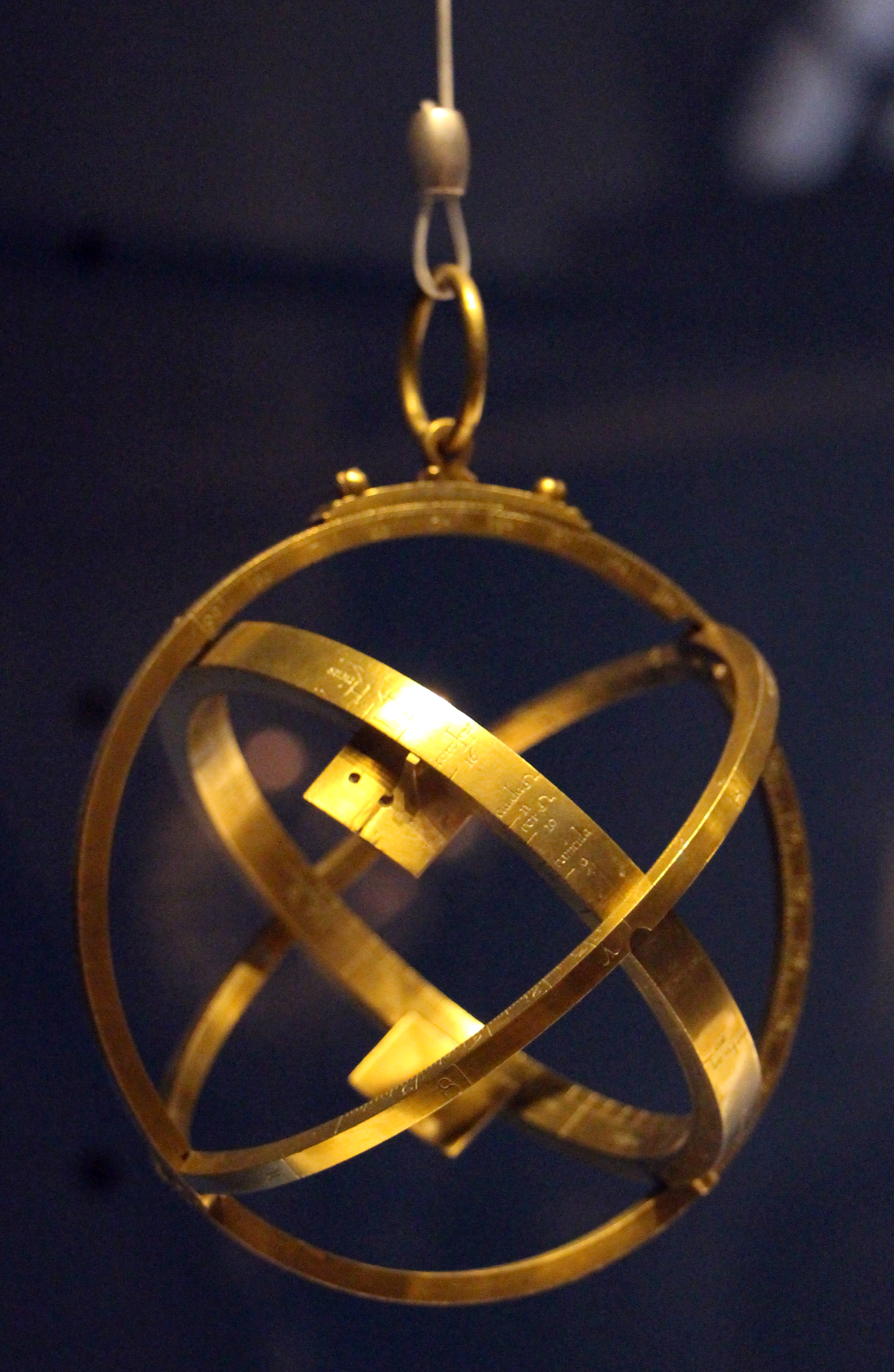 Astronomical ring.